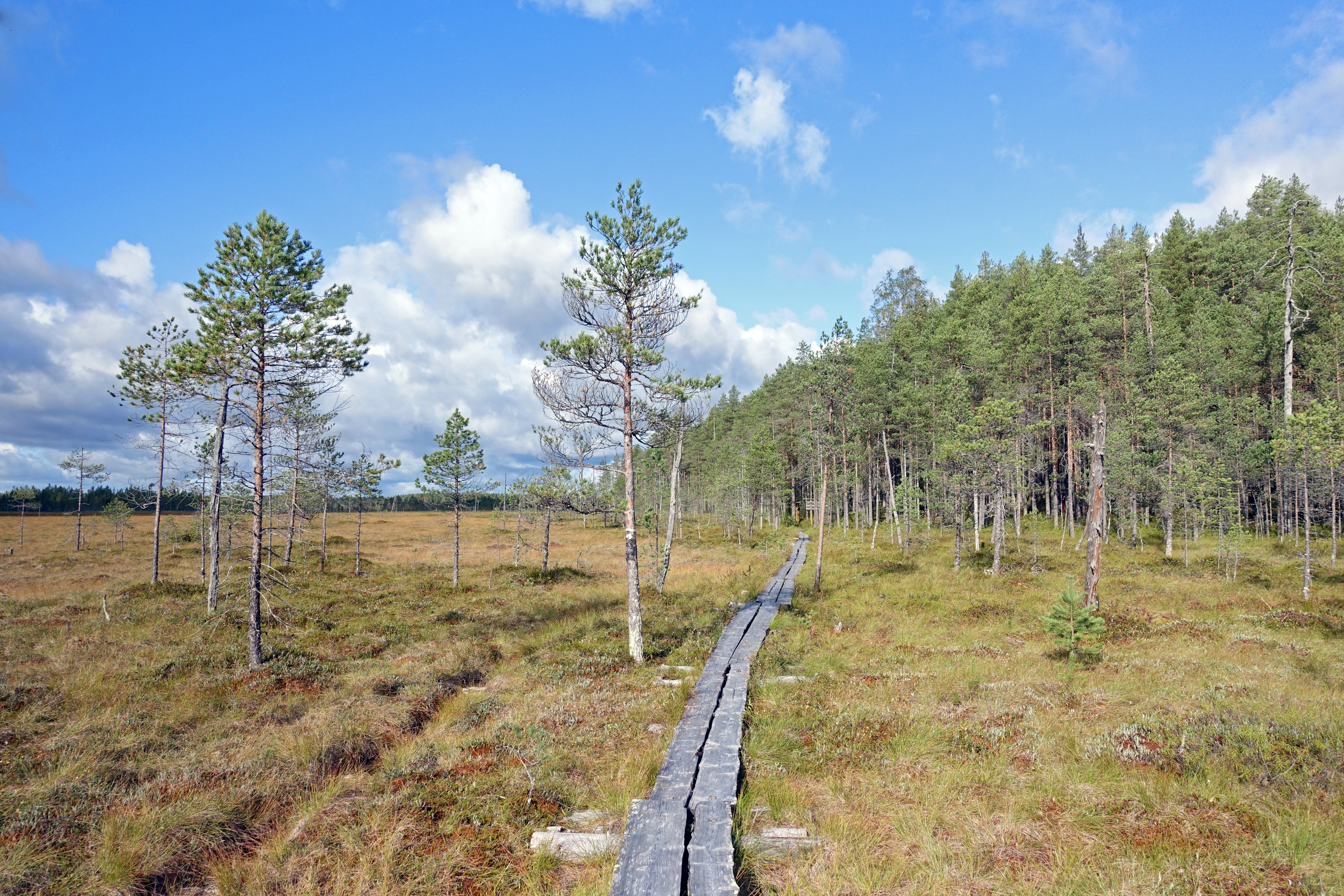 Pyhä-Häkki National Park, Saarijärvi, Finland.